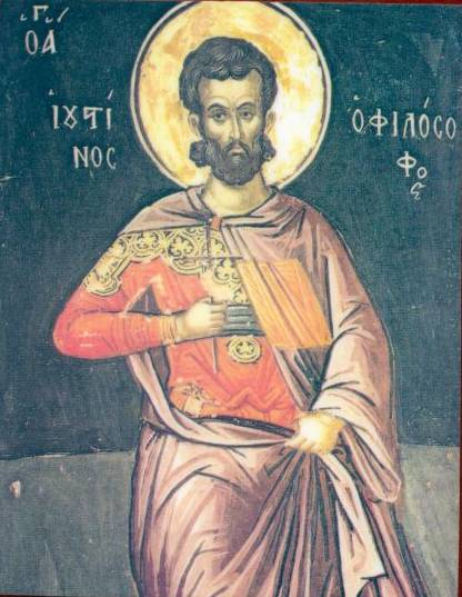 Justin the Philosopher